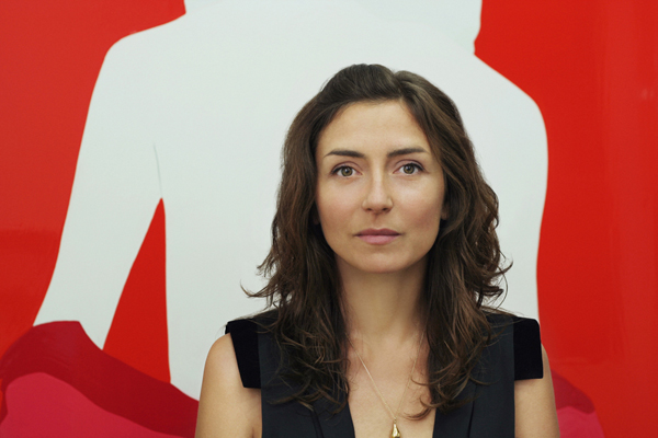 Natasha Law in her studio